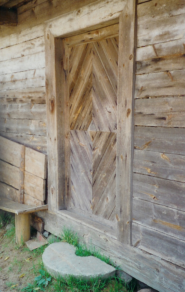 The door of a peasant granary in Nowe Dolistowo